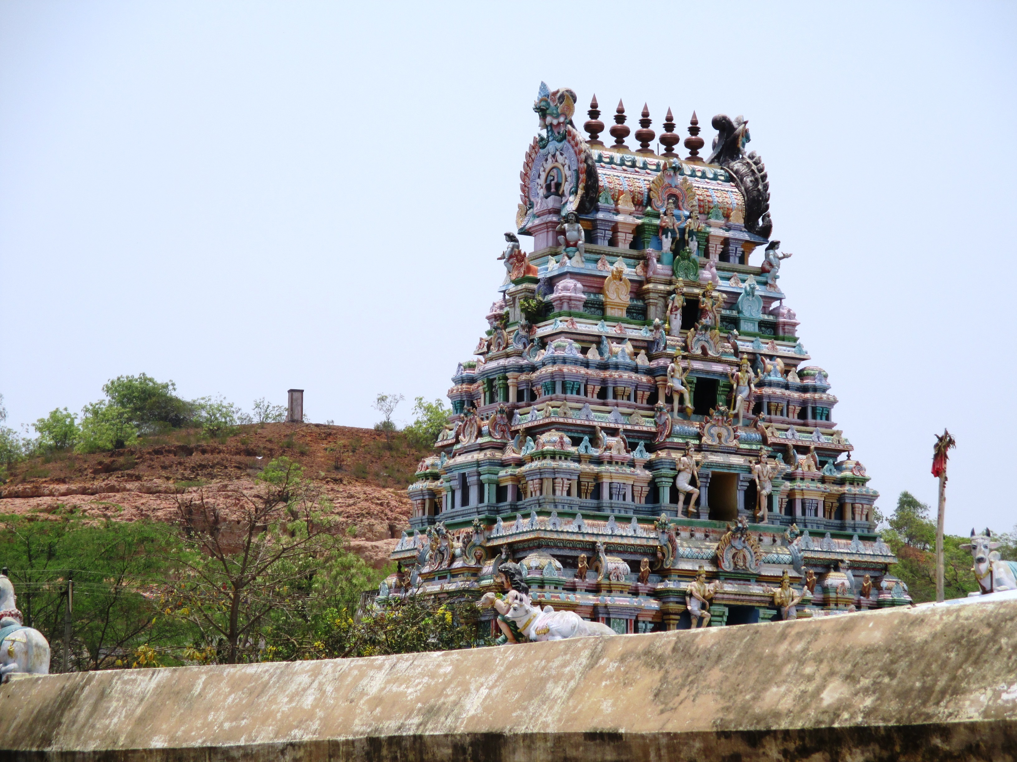 Thirumanikuzhi